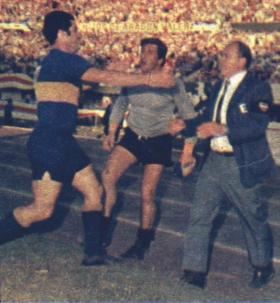 Di Stéfano celebrating Boca winning 1969 Championship against River.